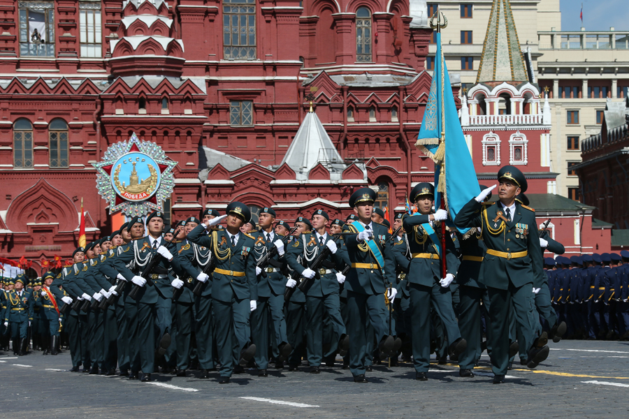 Kazakh Cadets participating in Parade in Moscow in 2015.